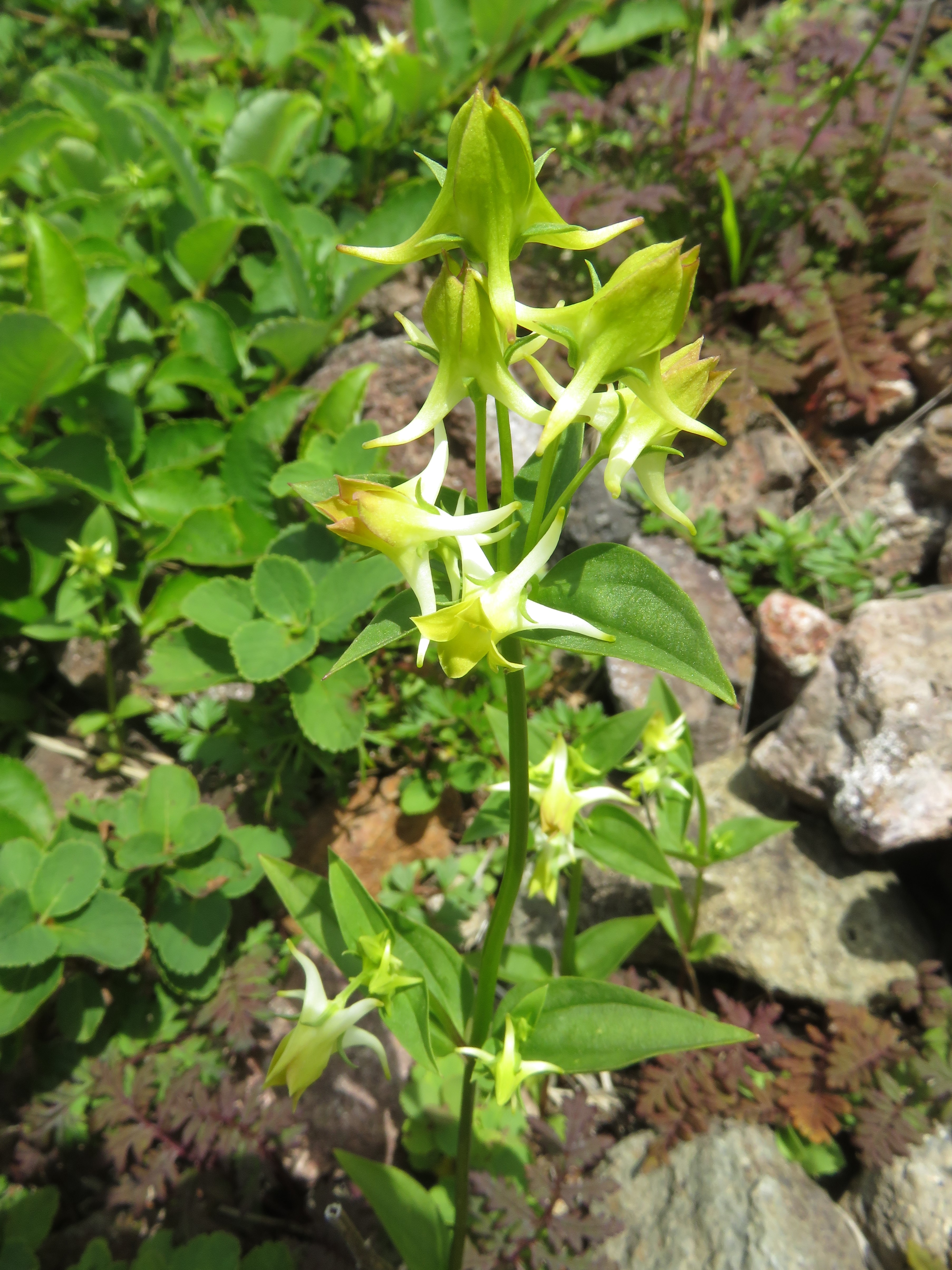 Halenia corniculata, Mount hakkoda, Aomori pref., Japan